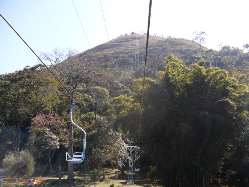 Southern Minas Gerais State